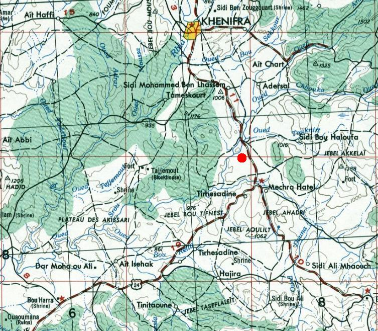 A map of the area to the south of Kénifra in 1953